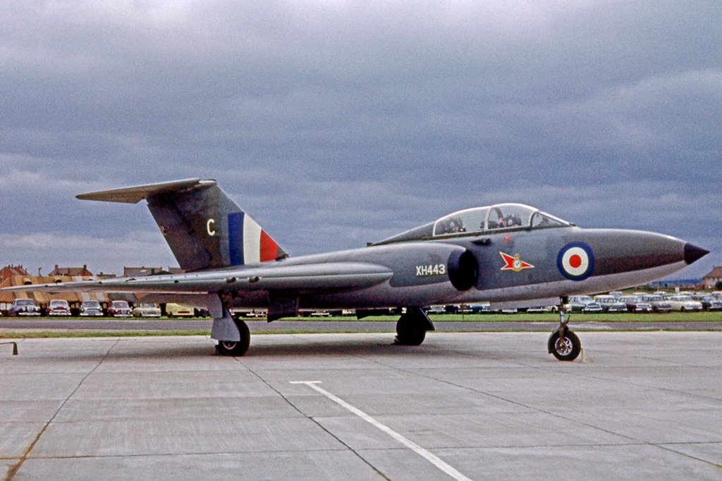 Gloster Javelin T.3 of 226 Operational Conversion Unit at RAF Acklington in 1963